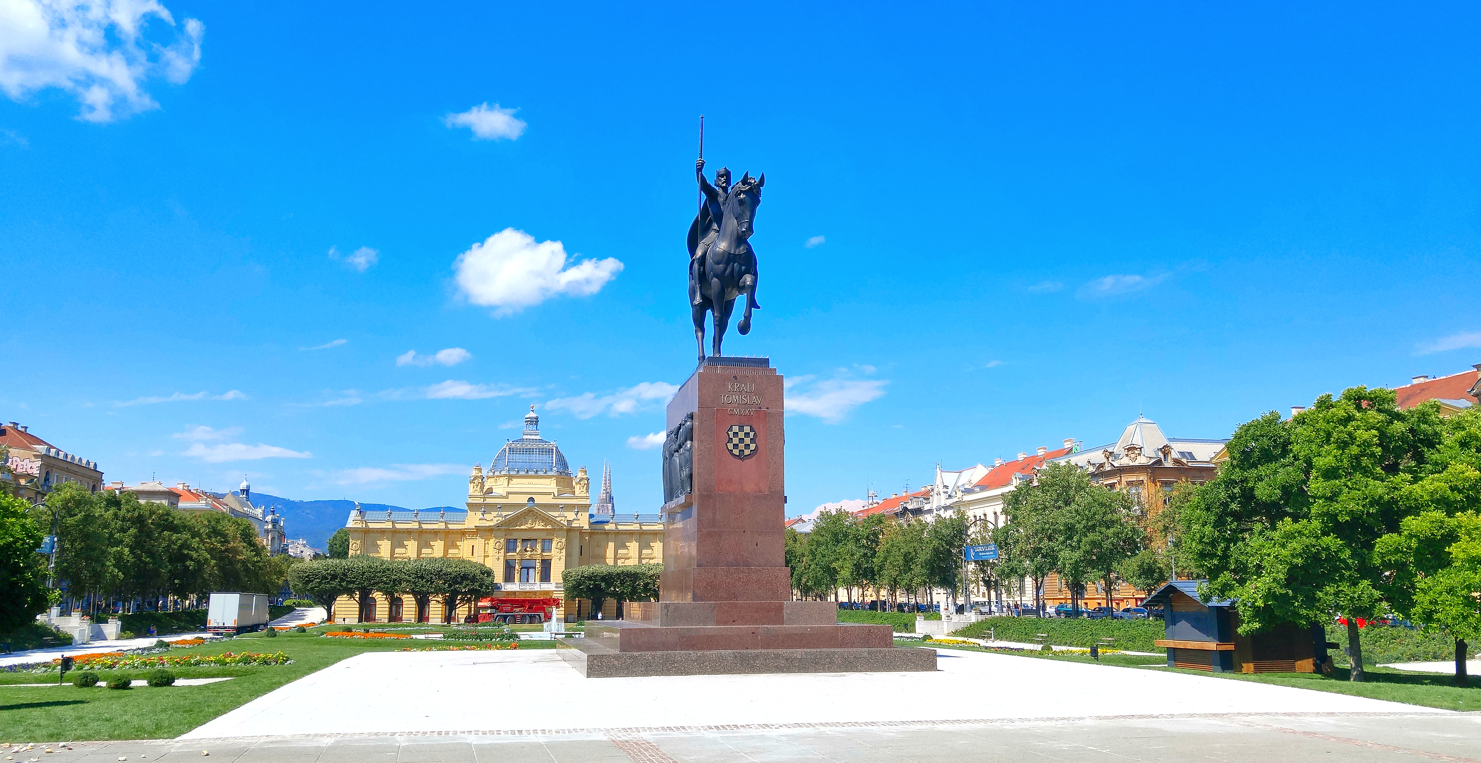 King Tomislav statue in King Tomislav square in Zagreb, Croatia